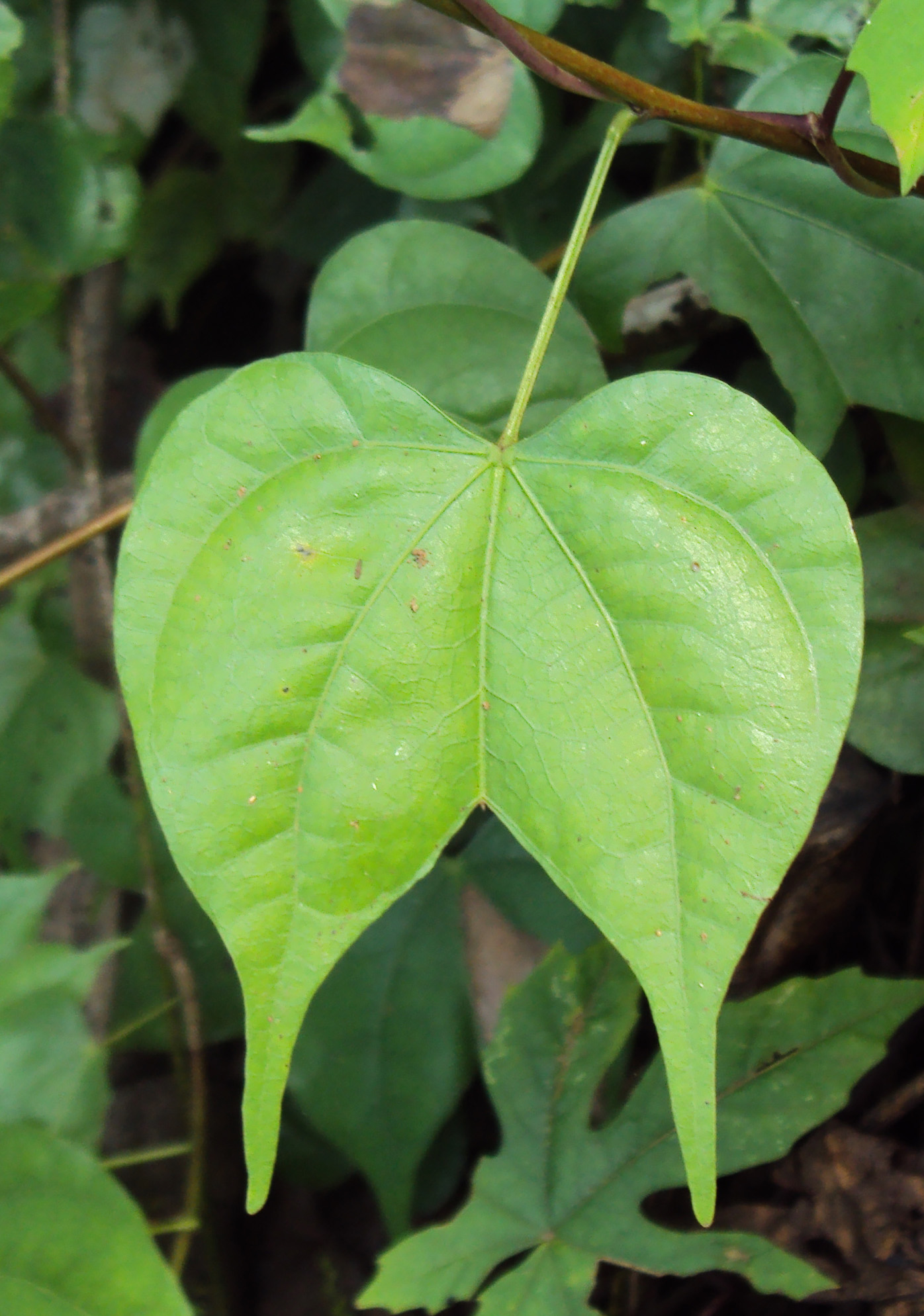 Bauhinia scandens